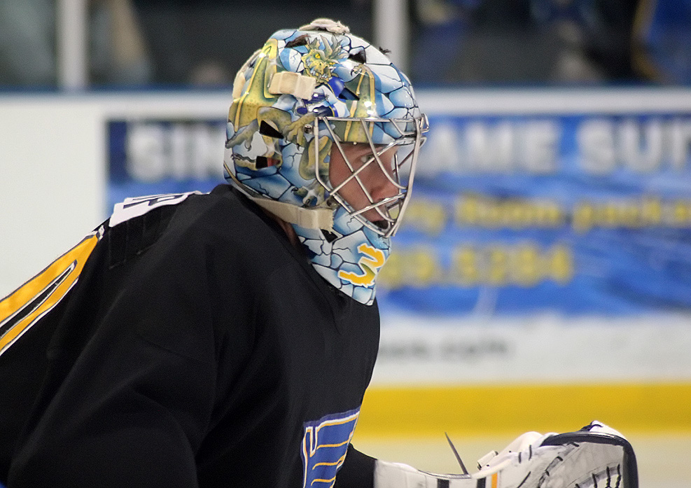 ben bishop former St.louis Blues player 2011